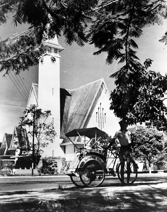 Becak in front of the protestant church